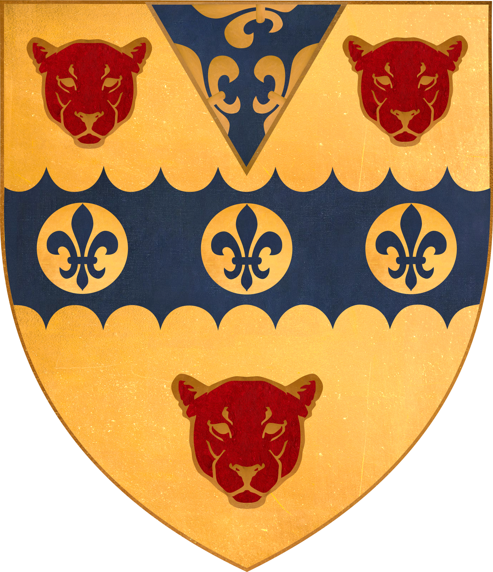 Sainthill Coat of Arms